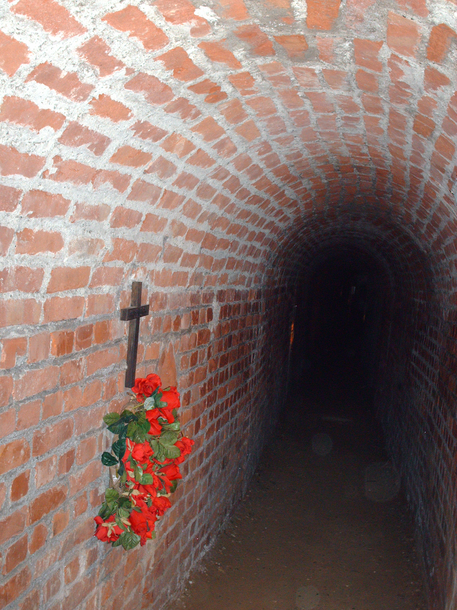 Memorial of the death place of Pietro Micca, Turin.